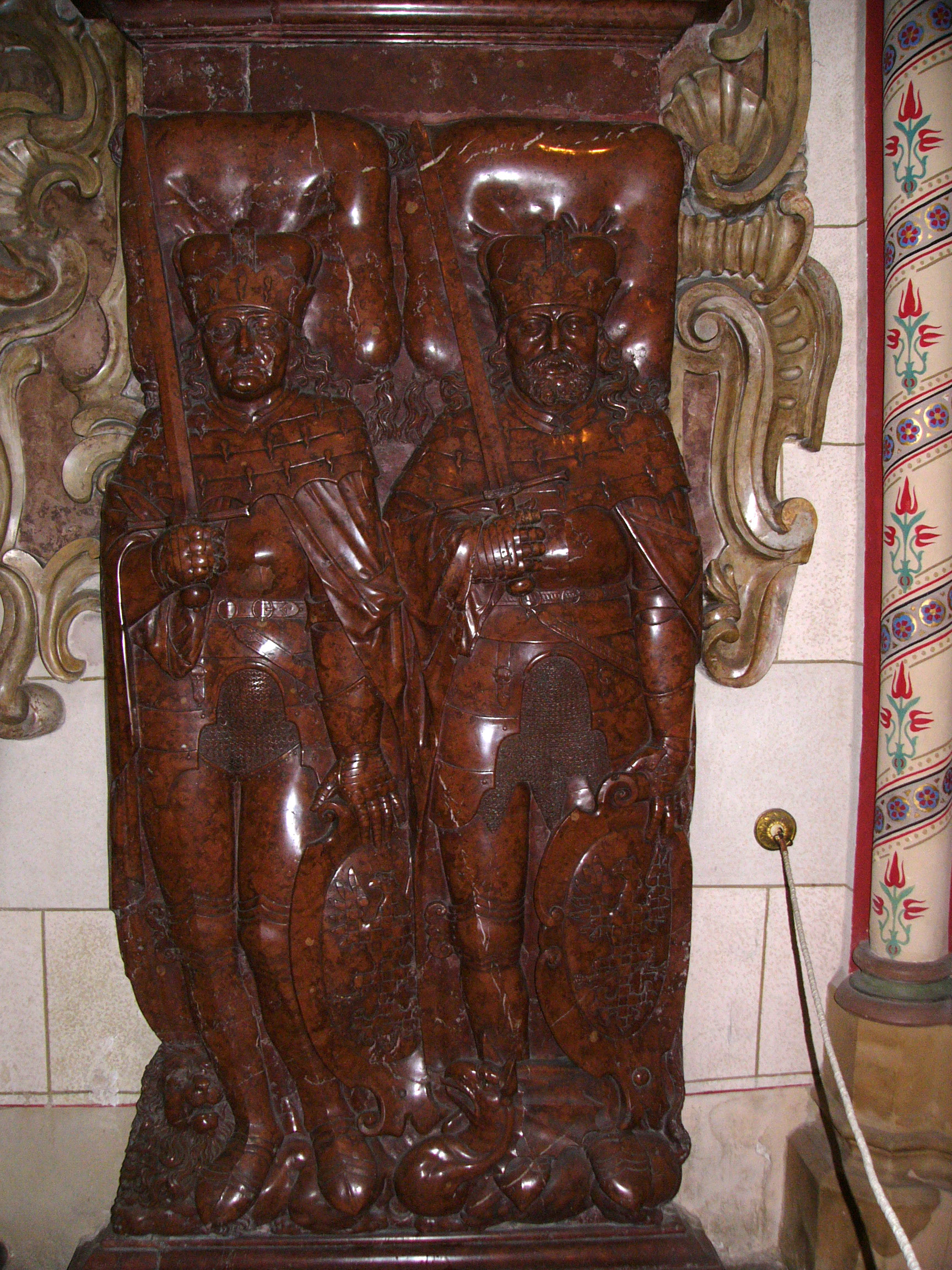 Baroque Tombstone of Premyslids Svatopluk and his son Vaclav in St. Wenceslaus cathedral in Olomouc (Czech Republic).